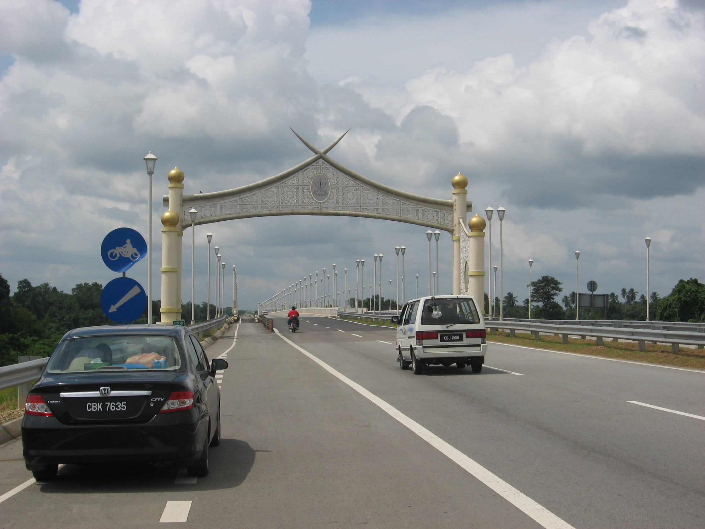 tabdulla